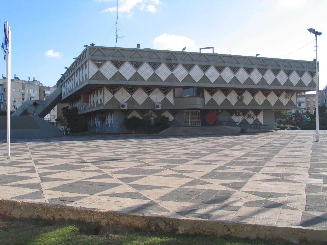 Bat Yam municipality building. Photo by me, User:Bukvoed (2005).